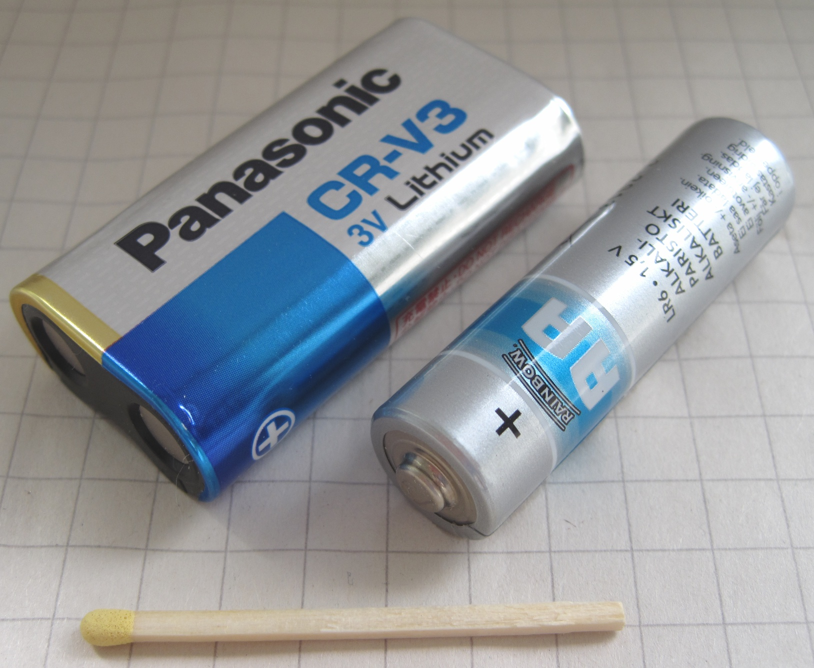 A CR-V3 camera battery with an AA battery and match for scale.